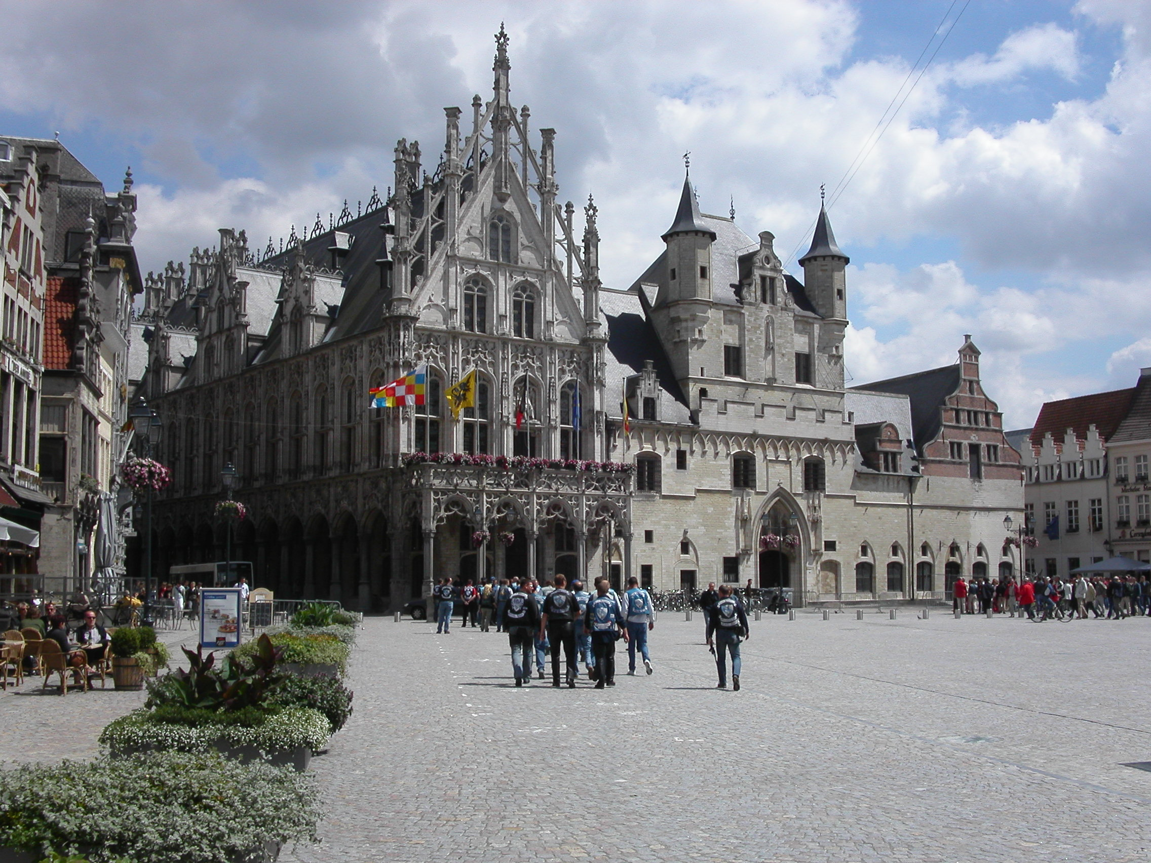 Mechelen, town hall, Belgium